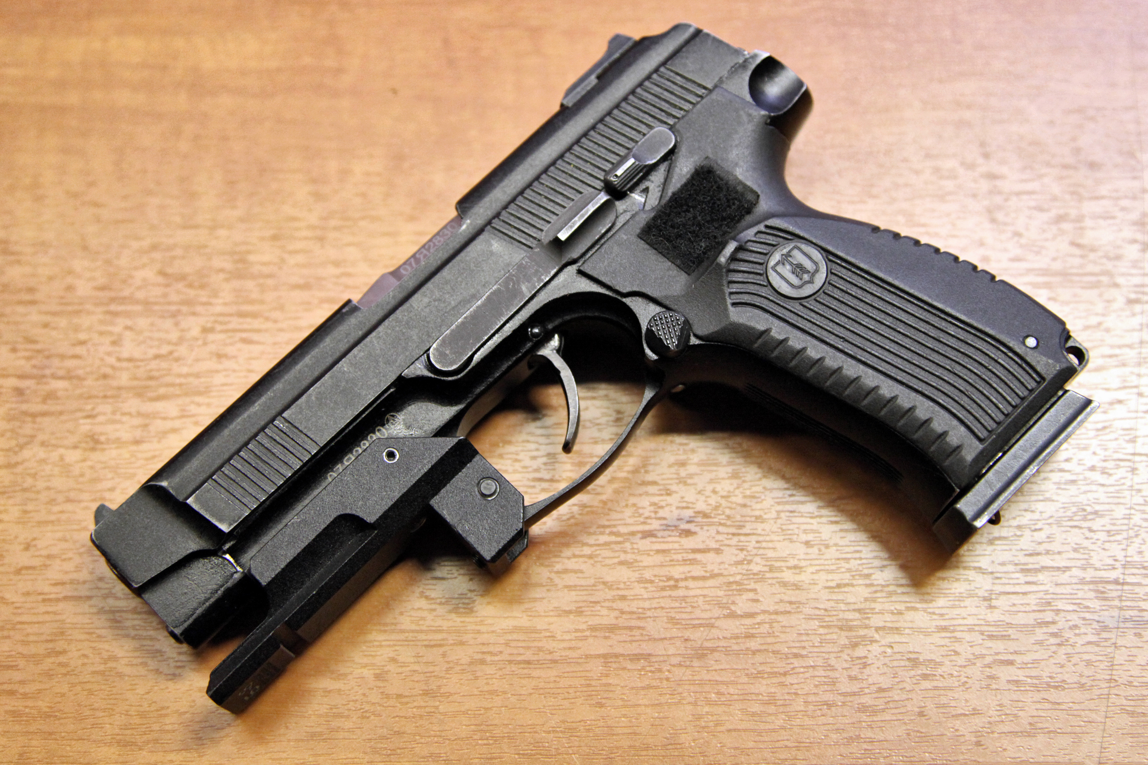 PYa Yarigin pistol - Moscow OMON